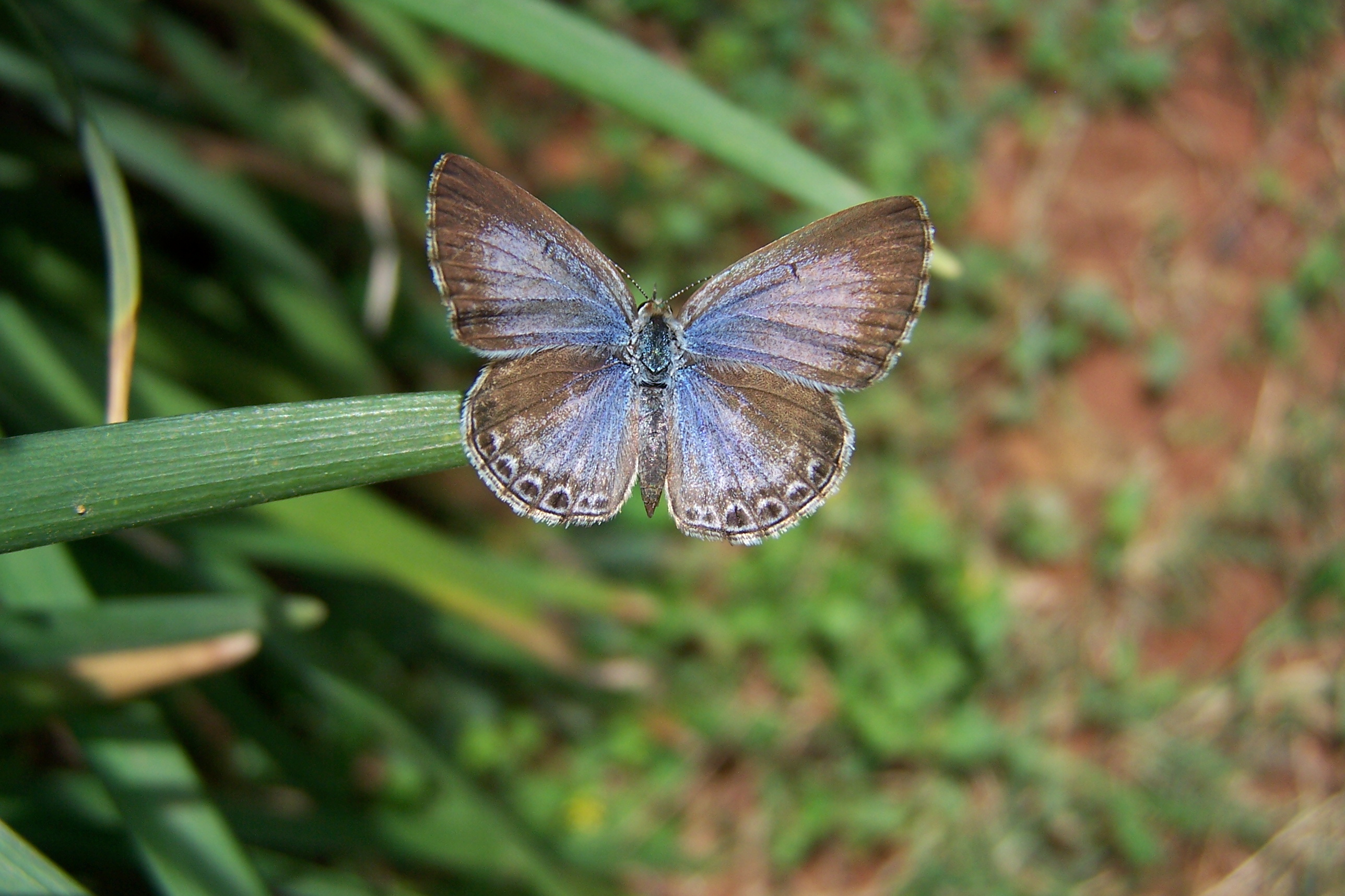 Seen at Bangalore, Karnataka